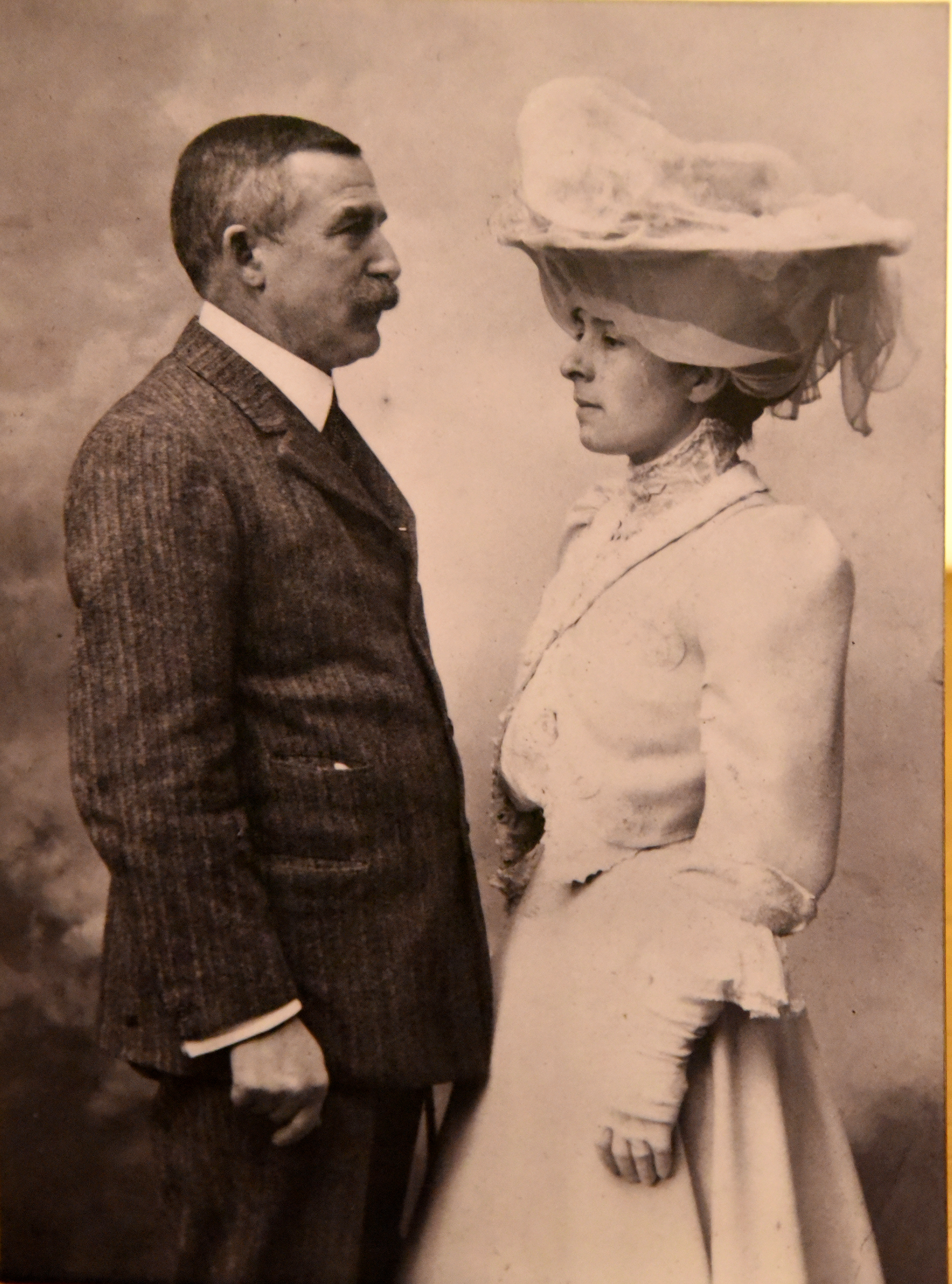 Henry Wellcome and his wife Syrie, c. 1902. Unknown photographer. The picture is housed in the Wellcome Collection and is on display. The original black&white picture is ©Wellcome Trust.